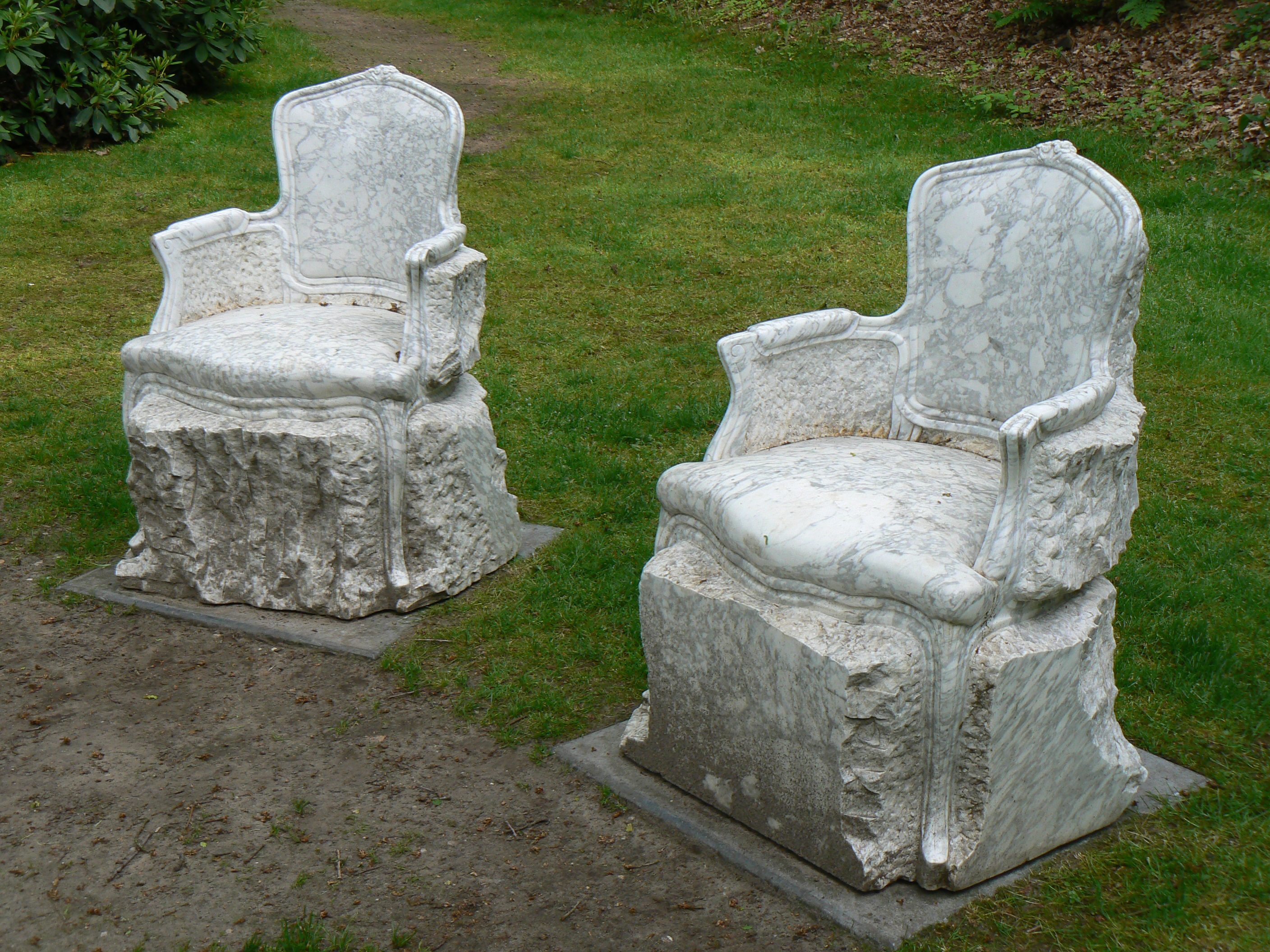 sculpture/installation (3-parts) The twenty-four men in white (1988) by Fortuyn/O'Brien in sculpturepark KMM/The Netherlands